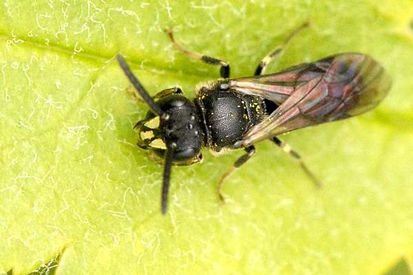 Hylaeus communis from Commanster, Belgian High Ardennes .